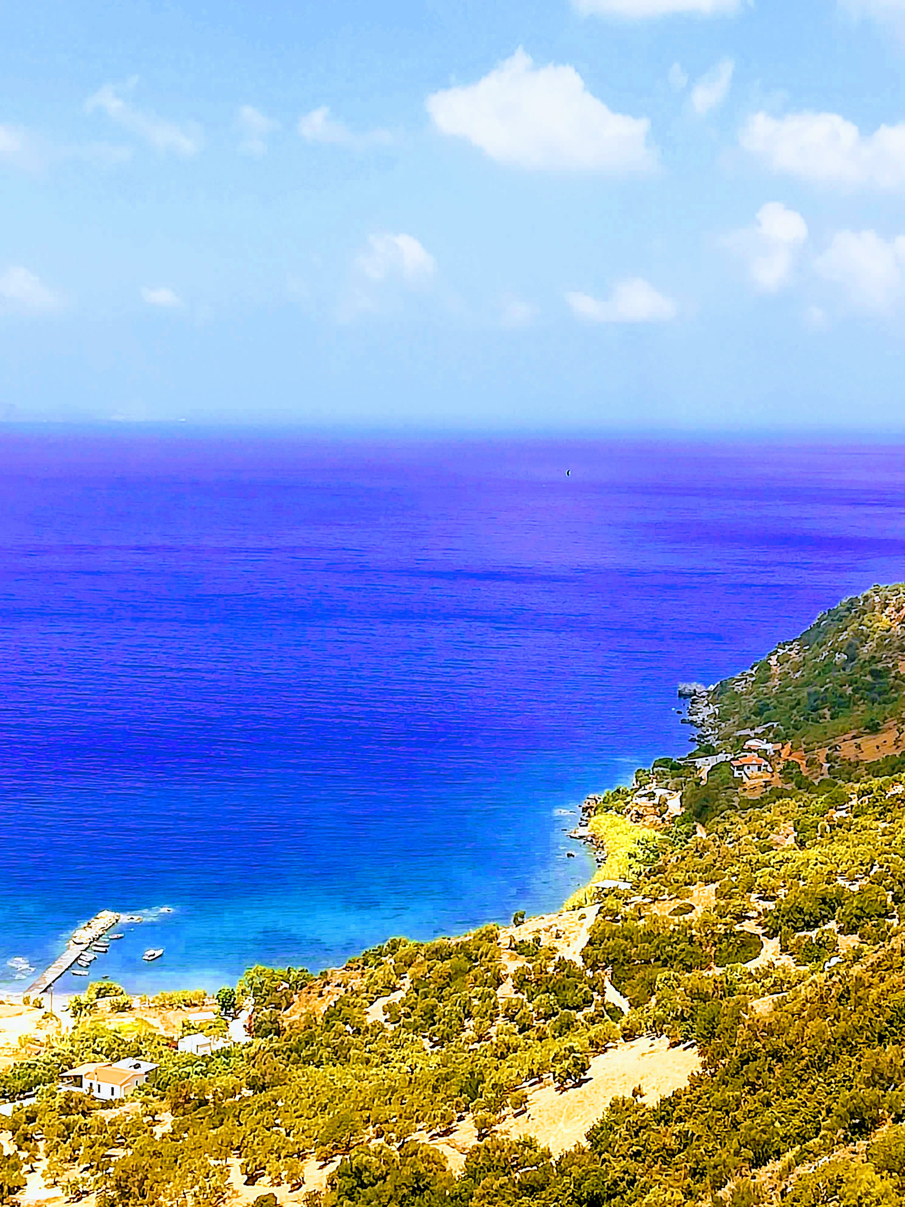 This is a photography of Natura 2000 protected area with ID GR4340003